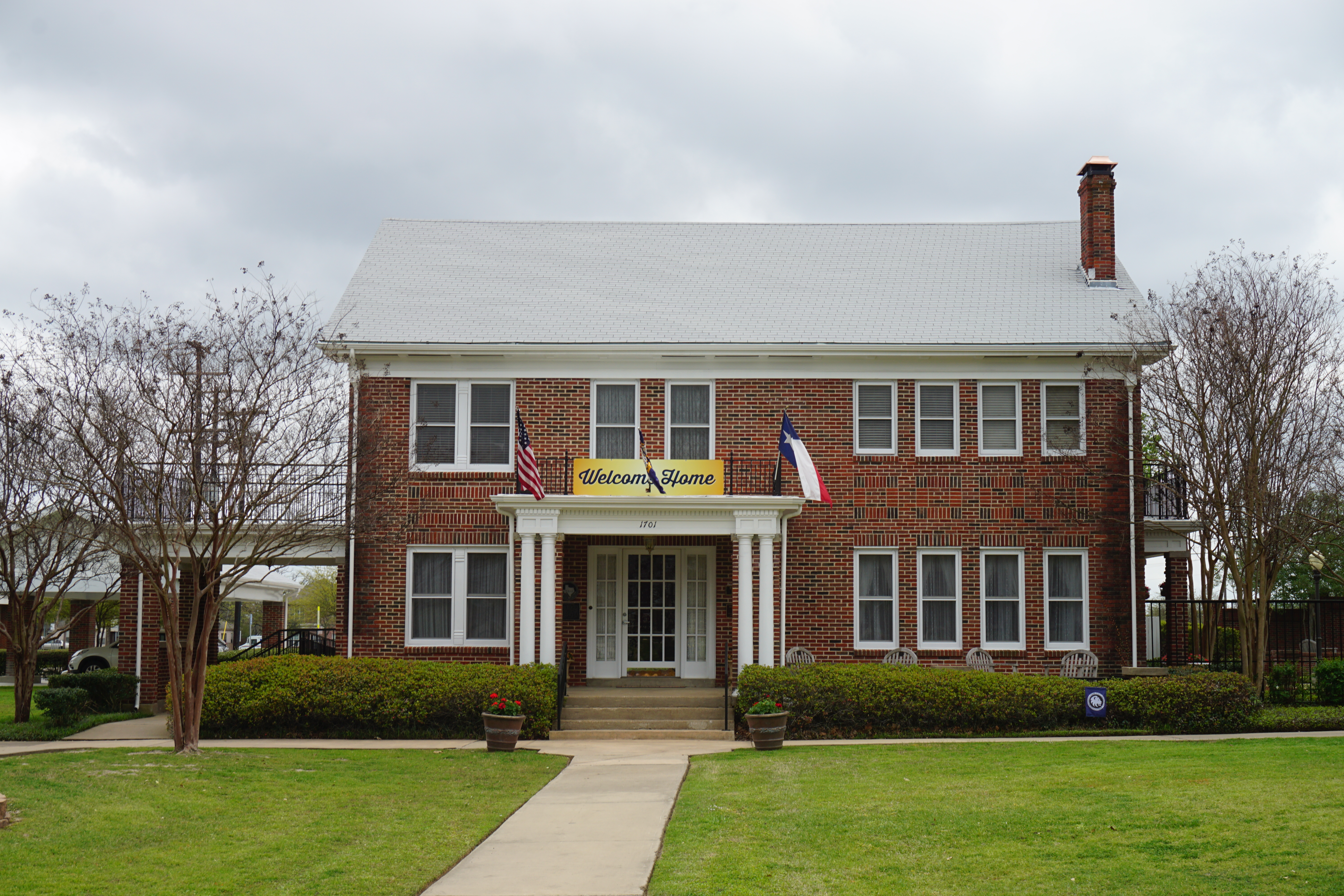 Heritage House on the campus of Texas A&M University–Commerce in Commerce, Texas (United States).